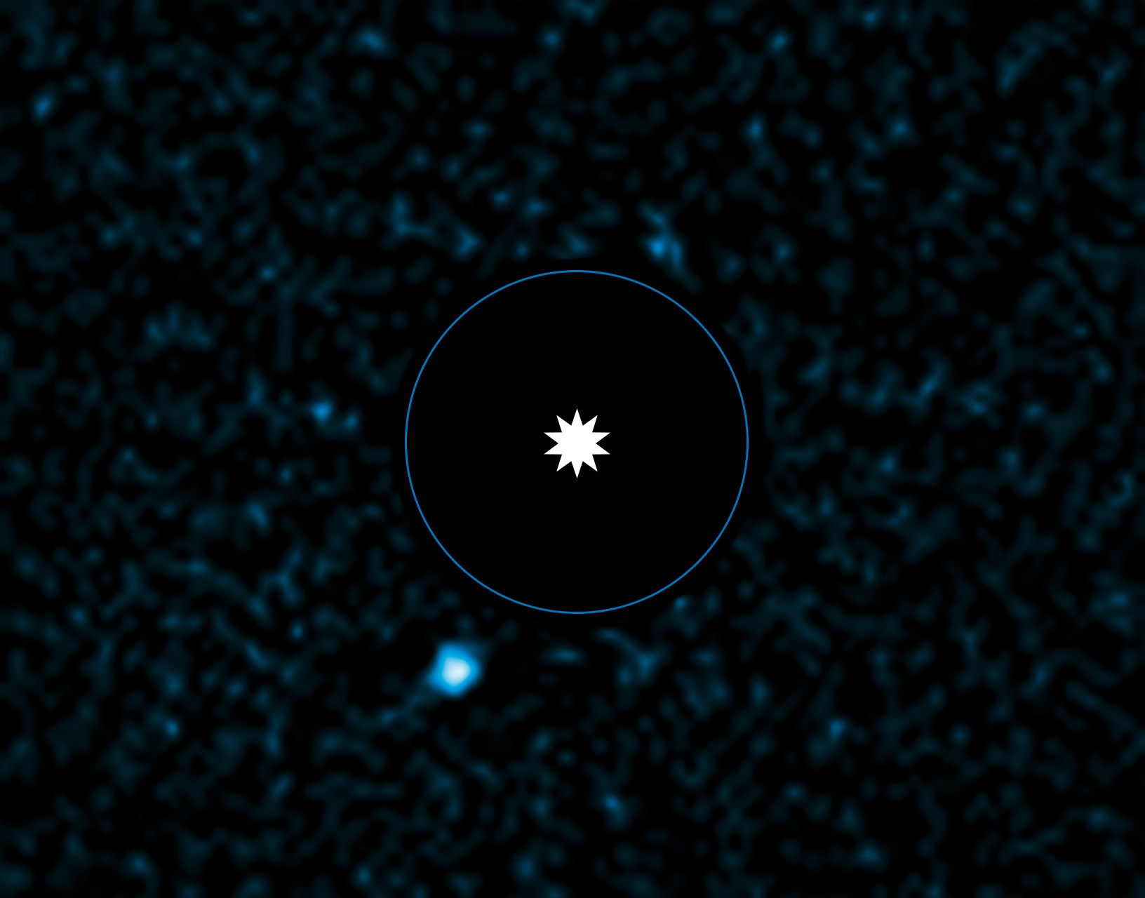 This image from ESO's Very Large Telescope (VLT) shows the newly discovered planet HD 95086 b, next to its parent star. The observations were made using NACO, the adaptative optics instrument for the VLT in infrared light, and using a technique called differential imaging, which improves the contrast between the planet and its dazzling host star. The star itself has been removed from the picture during processing to enhance the view of the faint exoplanet and its position is marked. The exoplanet appears at the lower left. The blue circle is the size of the orbit of Neptune in the Solar System. The star HD 95086 has similar properties to Beta Pictoris and HR 8799 around which giant planets have previously been imaged at separations between 8 and 68 astronomical units. These stars are all young, more massive than the Sun, and surrounded by a debris disc.